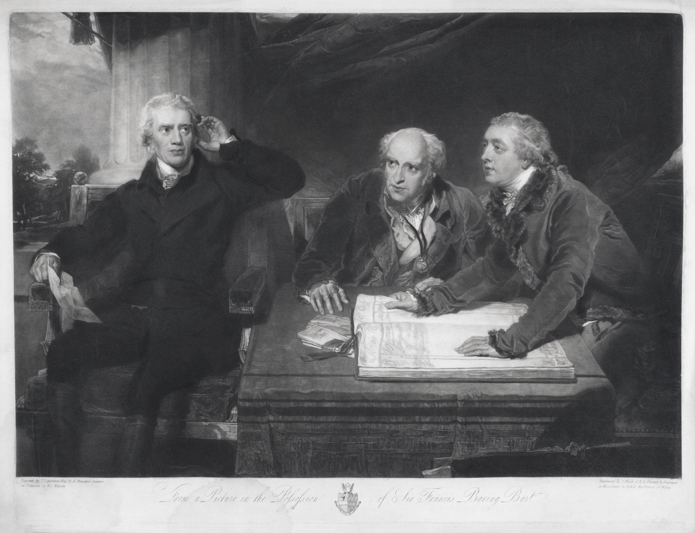 Sir Francis Baring, 1st Bt, John Baring; Charles Wall, by Sir Thomas Lawrence (died 1830). All images in this batch have been confirmed as author died before 1939 according to the official death date listed by the NPG.